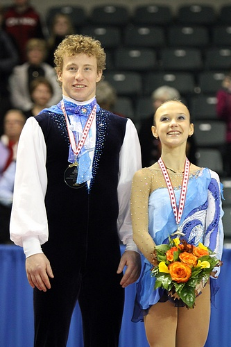 Lubov Iliushechkina / Nodari Maisuradze at the 2010 Skate Canada International